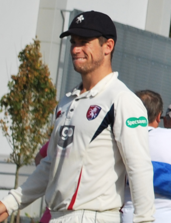 Sean Dickson at the Kent County Cricket Ground, Beckenham in September 2016